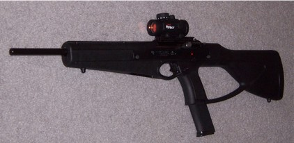 Hi-Point 995 carbine with aftermarket stock from Advanced Technology Inc, and a 15 round magazine.